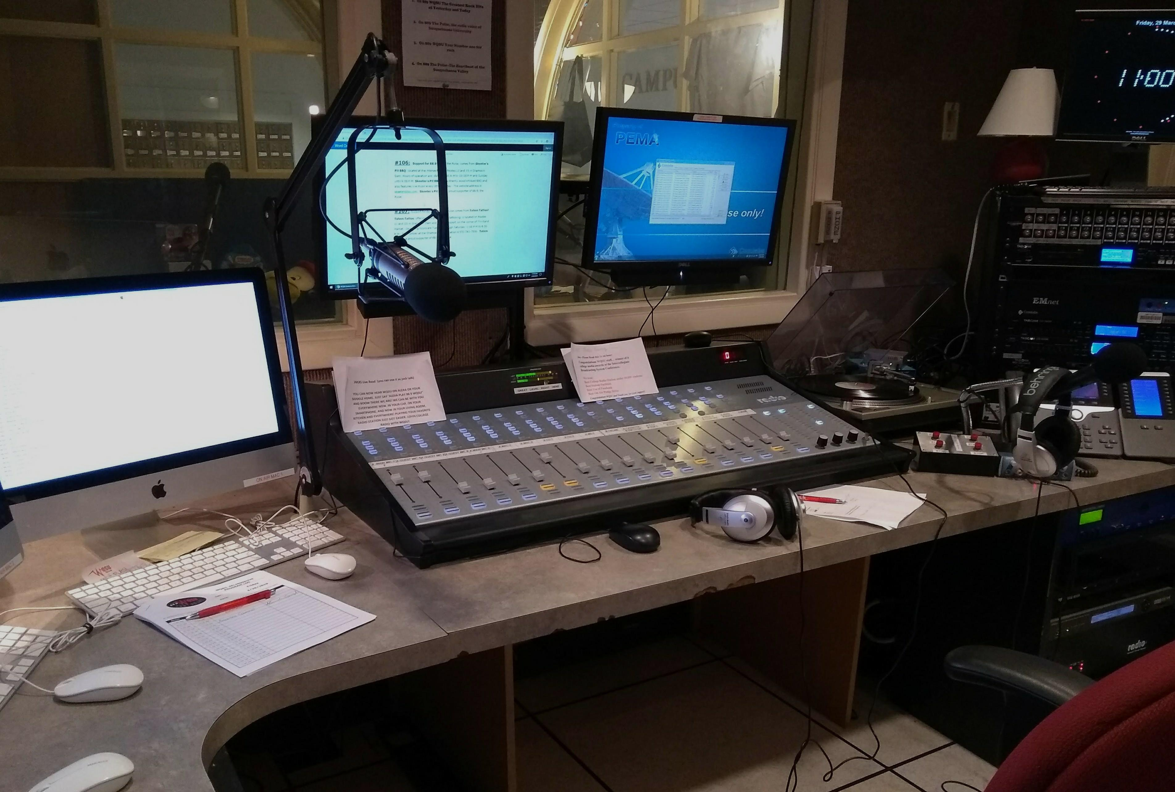 A mic, dashboard, headphones, and computers.